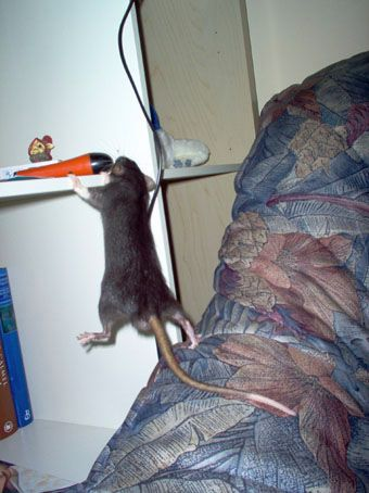 Fancy rat, climbing, not jumping Photo: Joanna Servaes (With thank from her website)